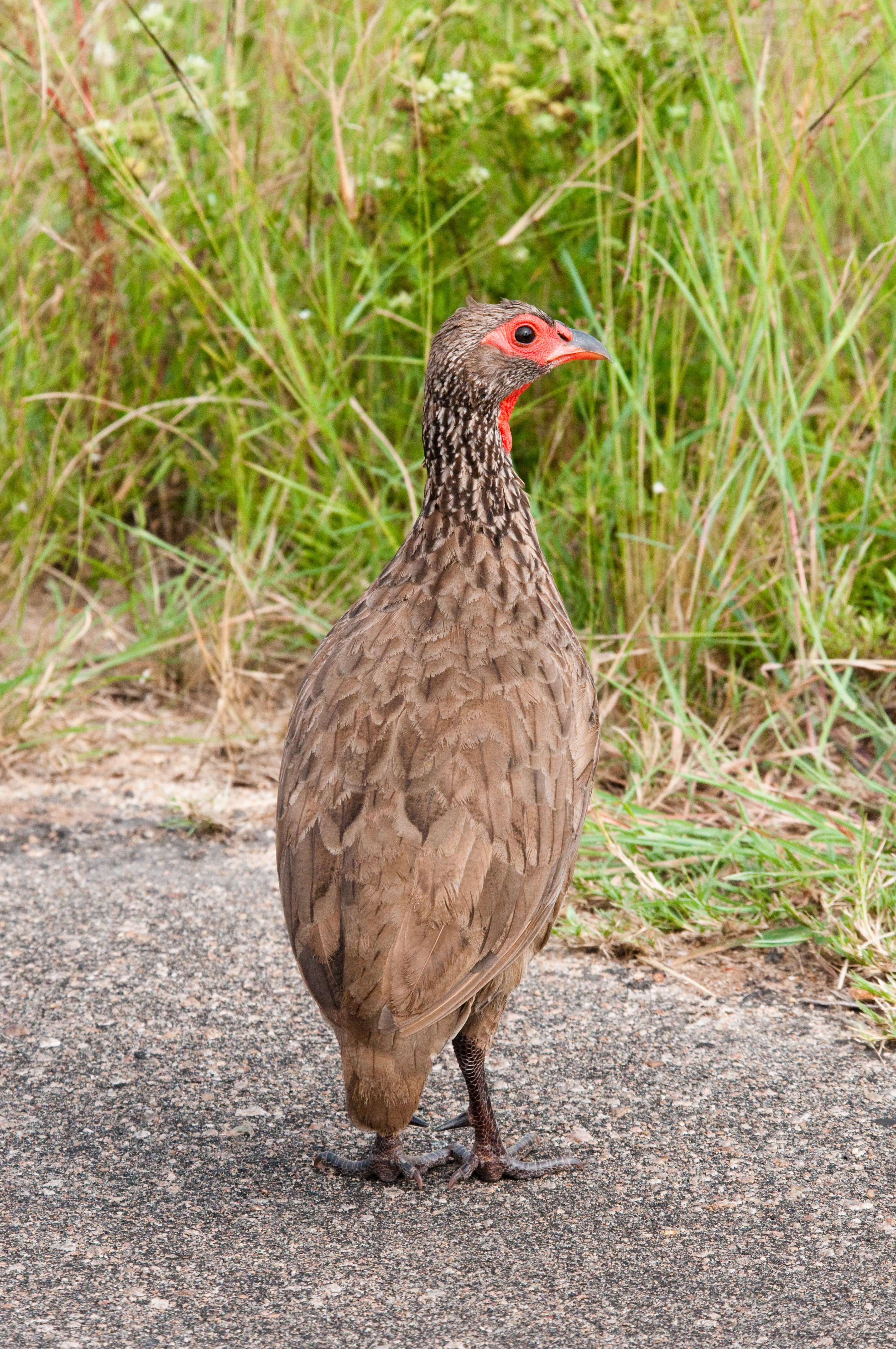 Swainson's Spurfowl in Kruger National Park, South Africa. The spurs on its legs indicate that it is a male.